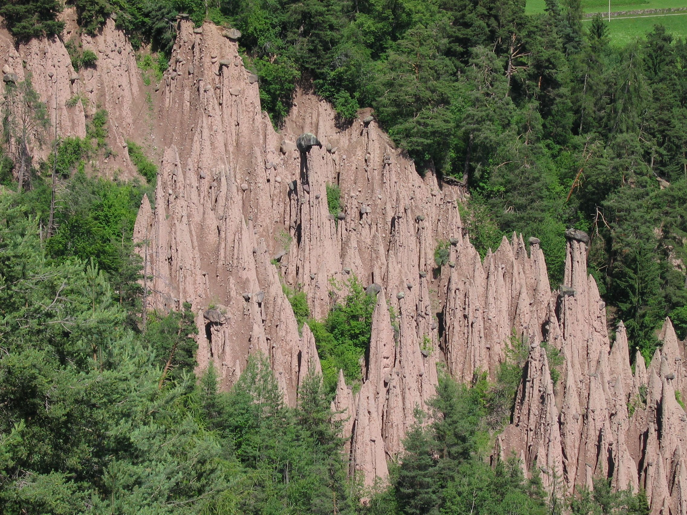 Rittner fairy chimney, South Tyrol